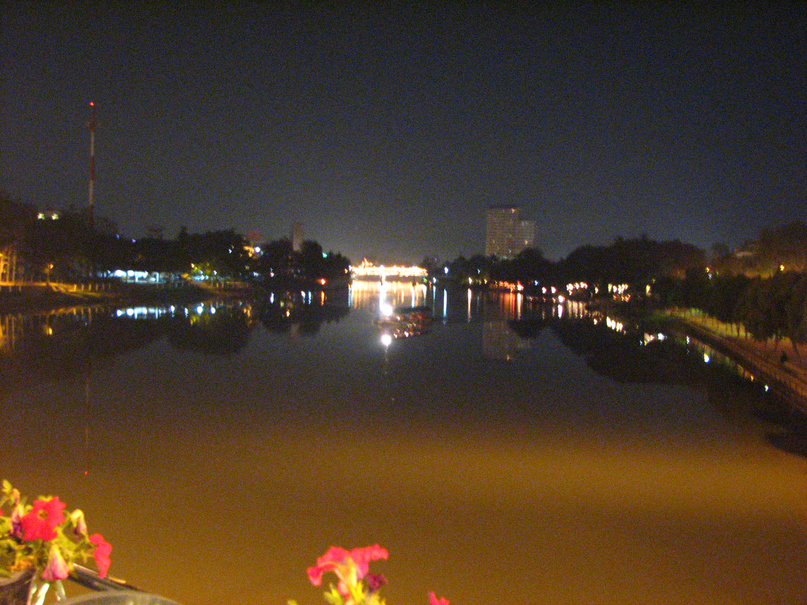 Night view of Ping river from Nawarat Bridge